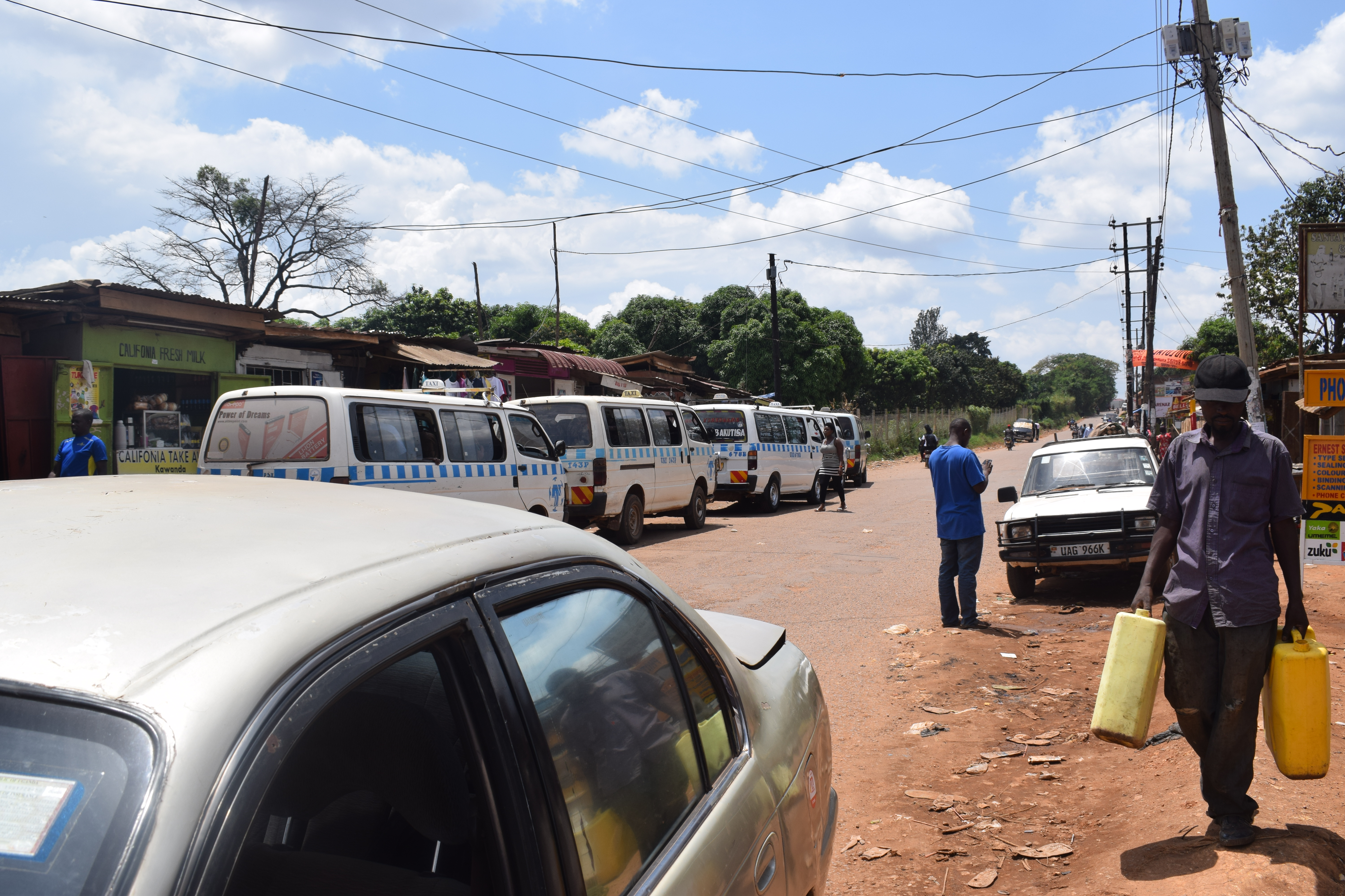 Public transportation waiting area and stop for passengers commonly known as a taxi stage. This is an image with the theme "Africa on the Move or Transport" from: Uganda